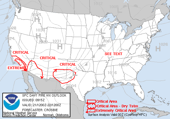 The day 1 fire weather outlook issued on October 21, 2007, in the midst of the October 2007 California wildfires.